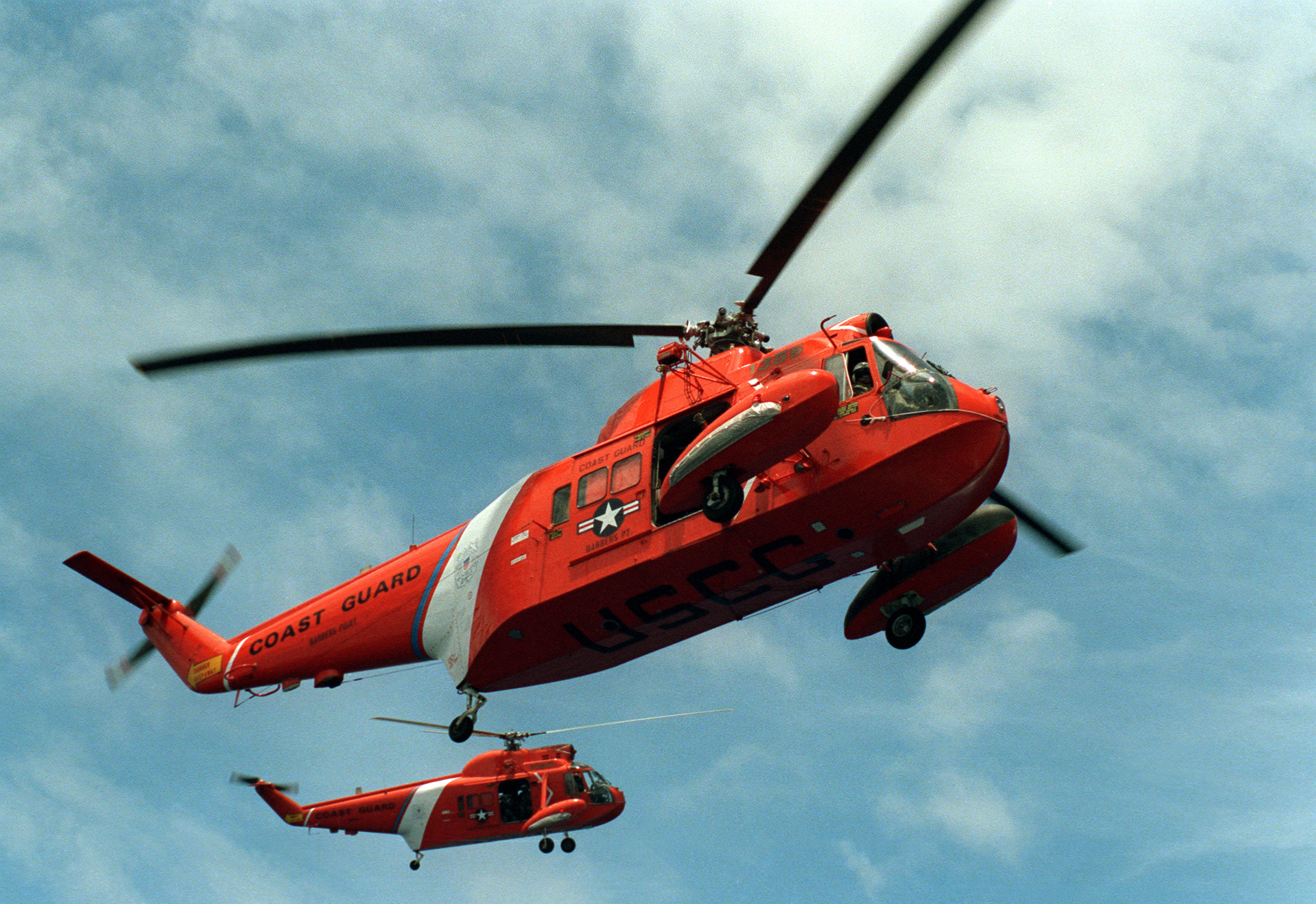 Two U.S. Coast Guard Sikorsky HH-52A Seaguard helicopters fly over Pearl Harbor, Hawaii (USA), in 1987.